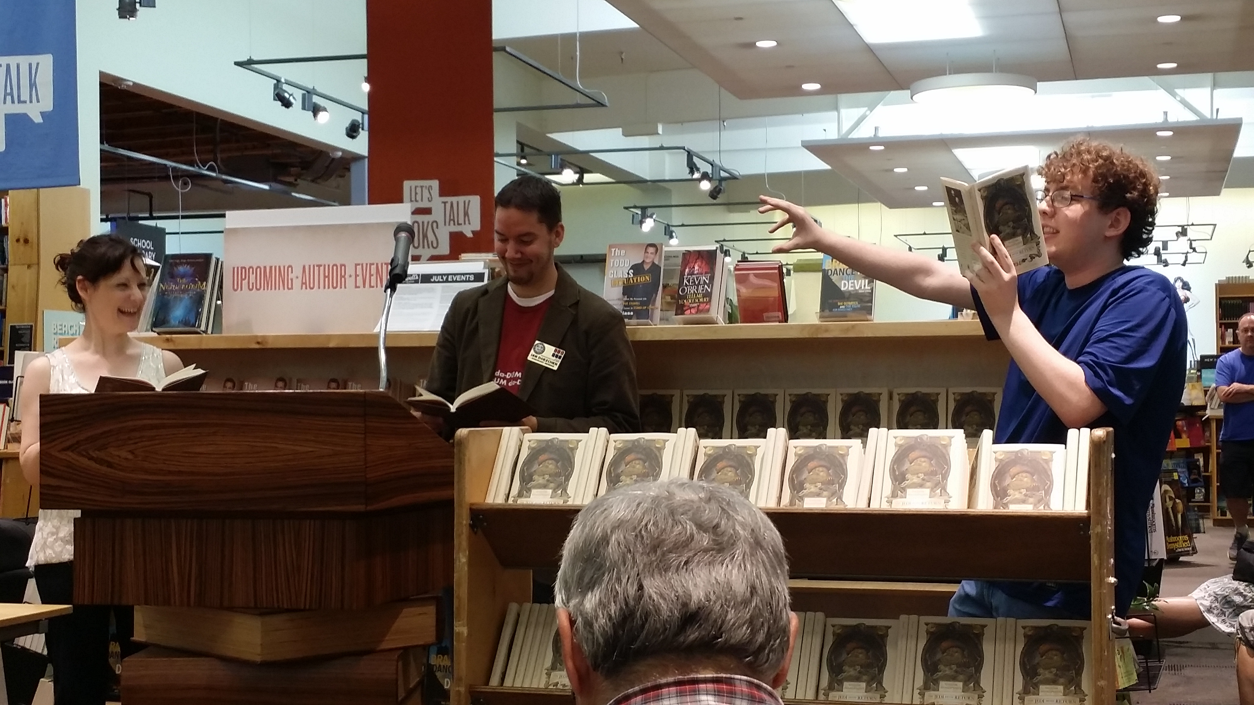 Ian Doescher (center) at a reading for his book The Empire Striketh Back at Powell's Bookstore at Cedar Hills in Beaverton, Oregon.